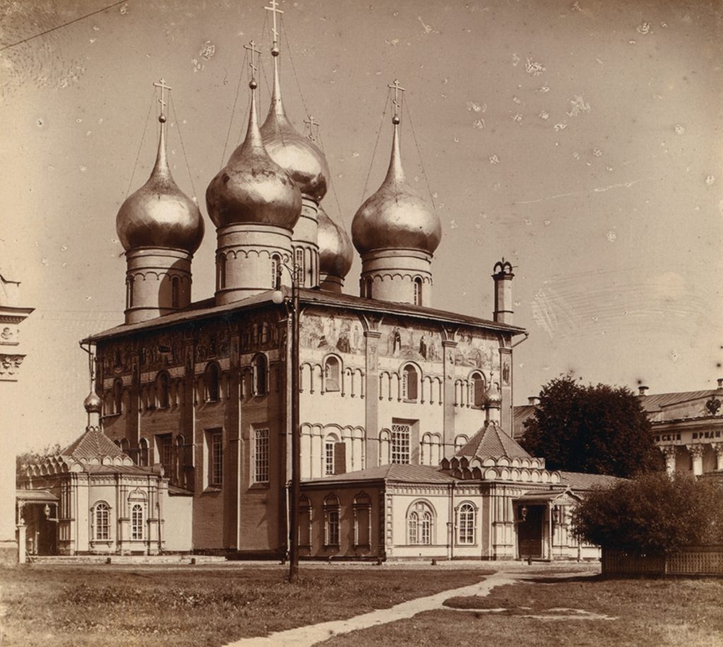 The Dormitional Cathedral. Yaroslavl, 1910. Photographer S. M. Prokudin-Gorskii.